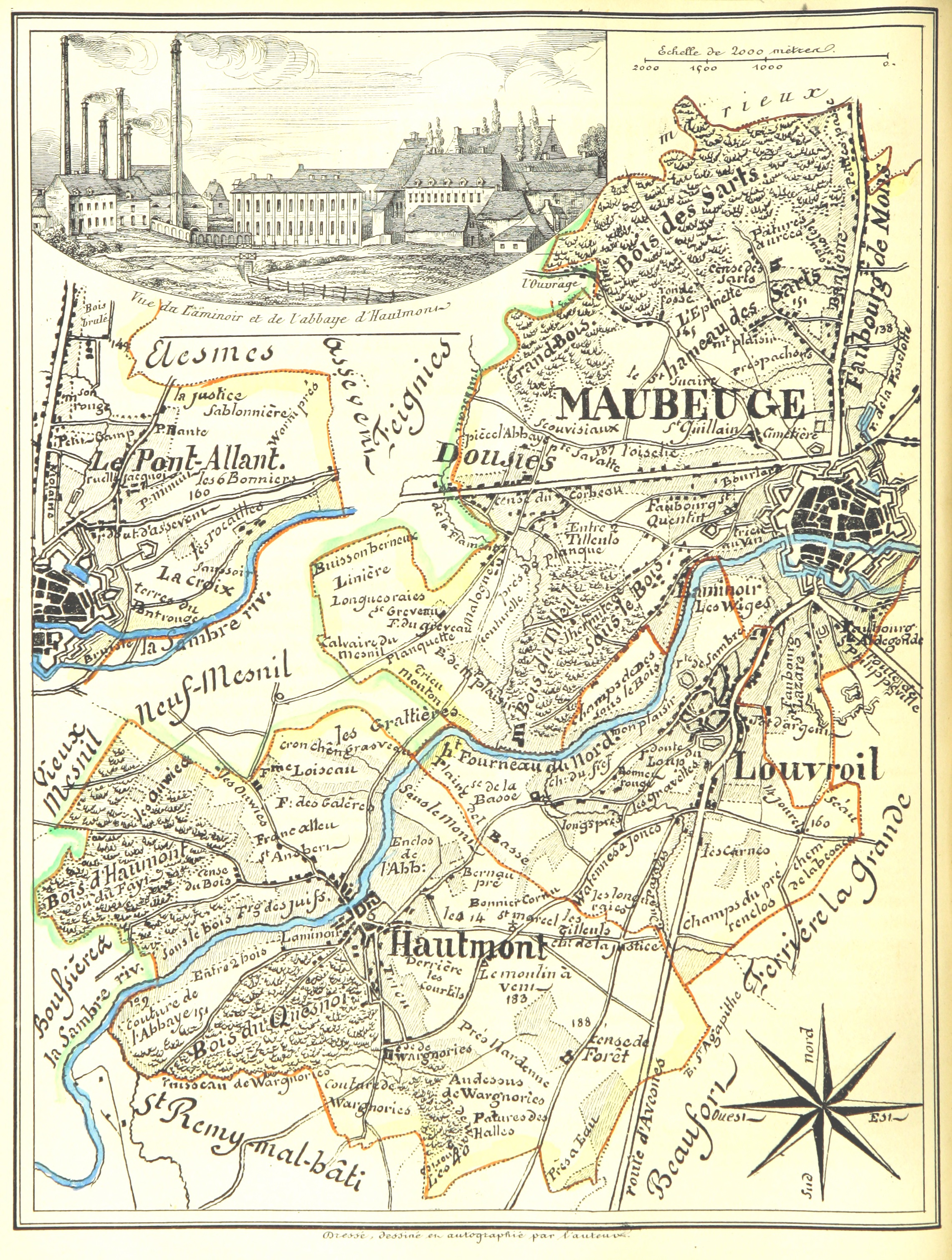 View this map on the BL Georeferencer service. Image taken from: Title: "Recherches historiques sur Maubeuge et son canton, et les communes limitrophes, avec des notes sur les villages de l'ancienne prévôté de cette ville, etc" Author: PIÉRART, Z. J. Shelfmark: "British Library HMNTS 10172.e.3." Page: 162 Place of Publishing: Maubeuge Date of Publishing: 1851 Issuance: monographic Identifier: 002912197 Explore: Find this item in the British Library catalogue, 'Explore'. Download the PDF for this book (volume: 0) Image found on book scan 162 (NB not necessarily a page number) Download the OCR-derived text for this volume: (plain text) or (json) Click here to see all the illustrations in this book and click here to browse other illustrations published in books in the same year. Order a higher quality version from here.